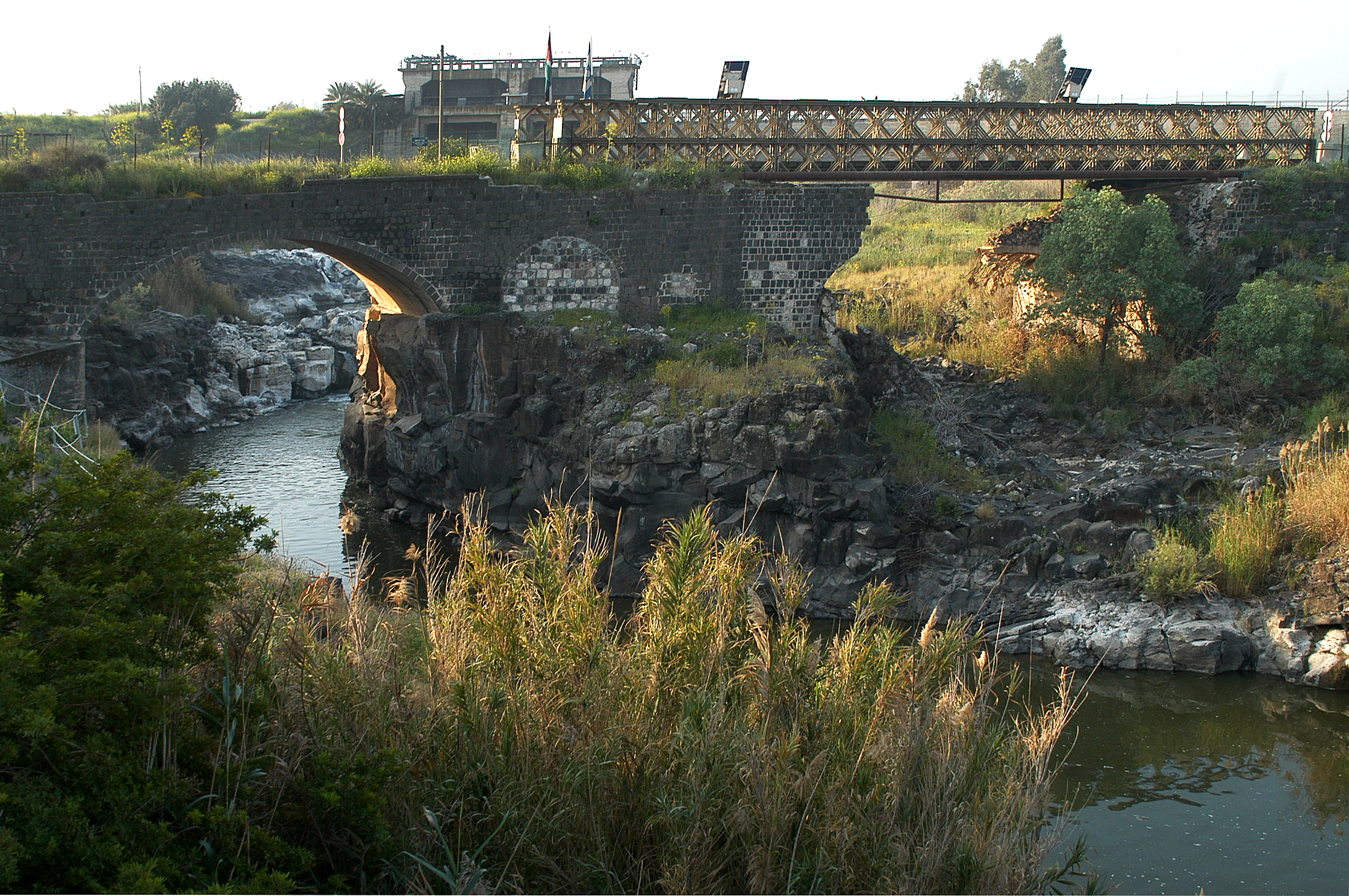 Aram Naharayim Site, first power station in Israel